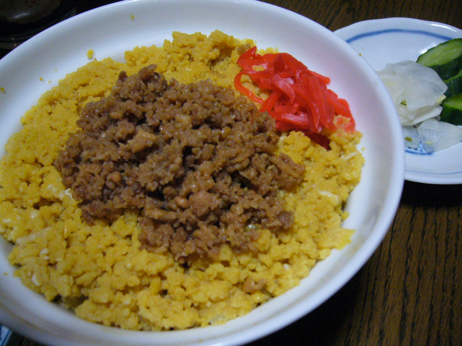 otori-soboro-don,seasoned-chicken-powder,japan